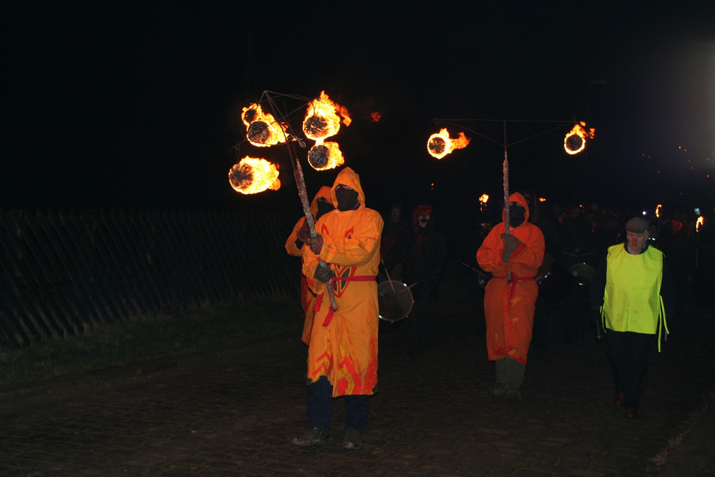 The start of the Imbolc festival 2006. Marsden. Huddersfield.